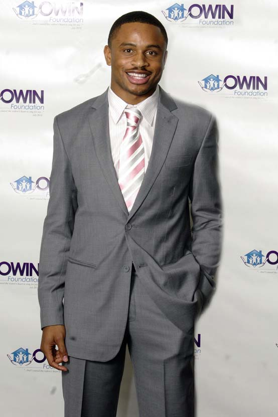 Mr. Nnamdi Asomugha at the Owin Annual Fund Raising Event.